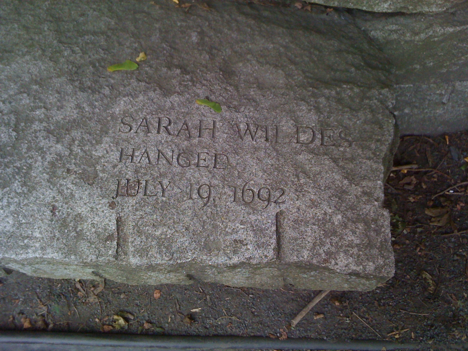 Sarah Wildes's marker at the Witch Trials Memorial.